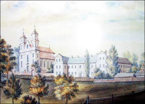 Non existent church of St. Vincent, Smilaviczy, Bielarus